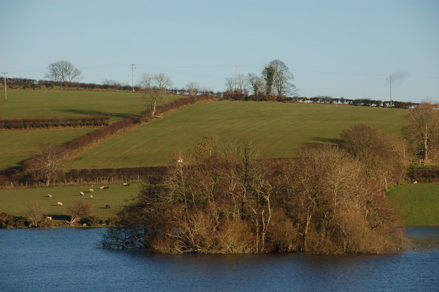 Crannog, Loughbrickland lake, County Down